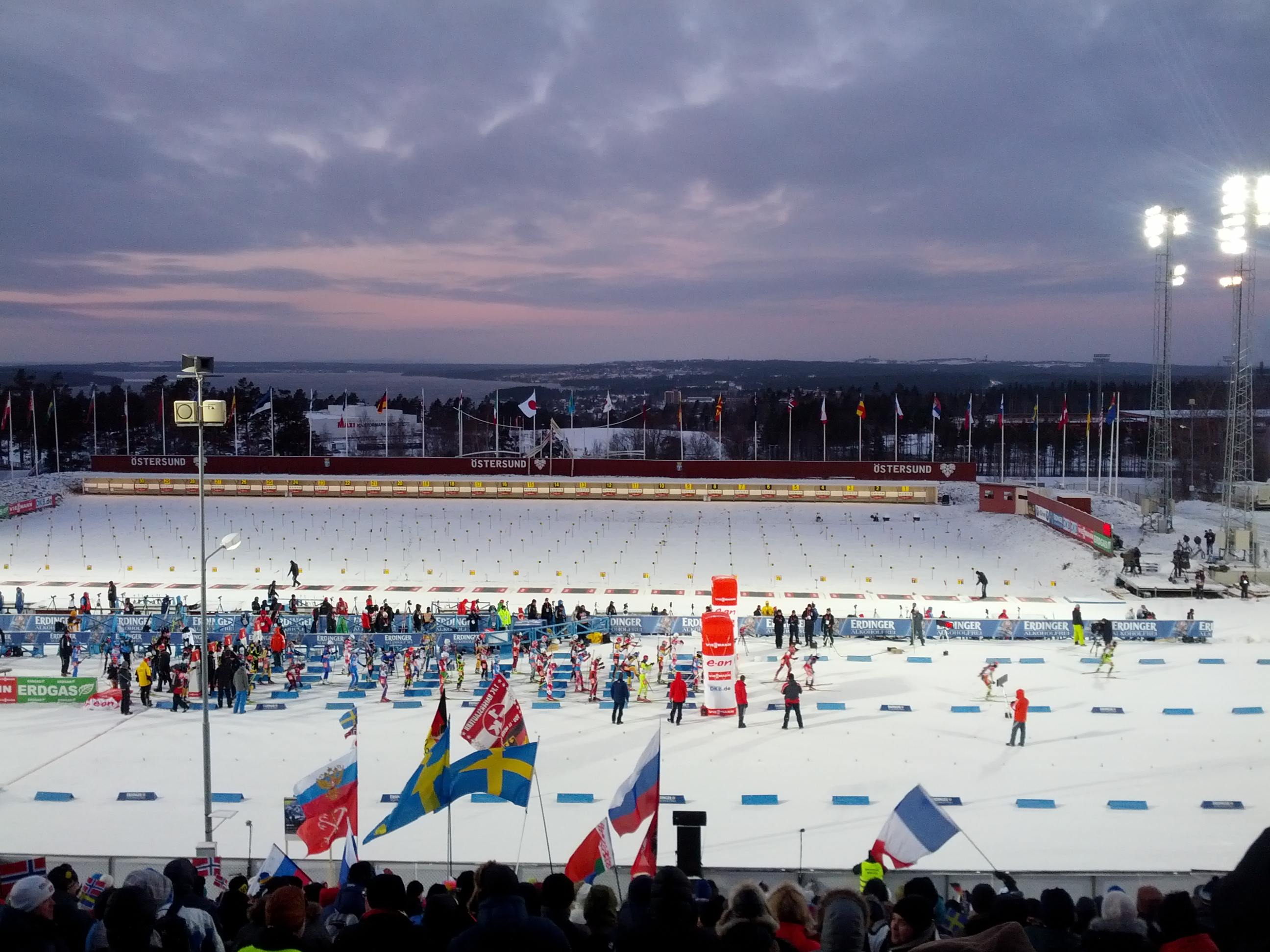 The start in womens pursuit in the world cup in biathlon in Östersund